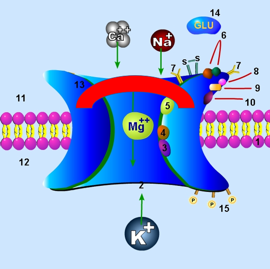 NMDA Channel example of Uncompetitive inhibition